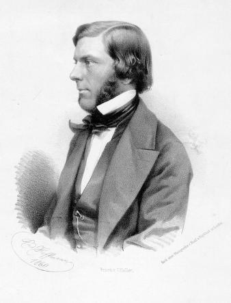 Alexander William Williamson (* 1. Mai 1824 in Wandsworth; † 6. Mai 1904 in Haslemere), English chemist.